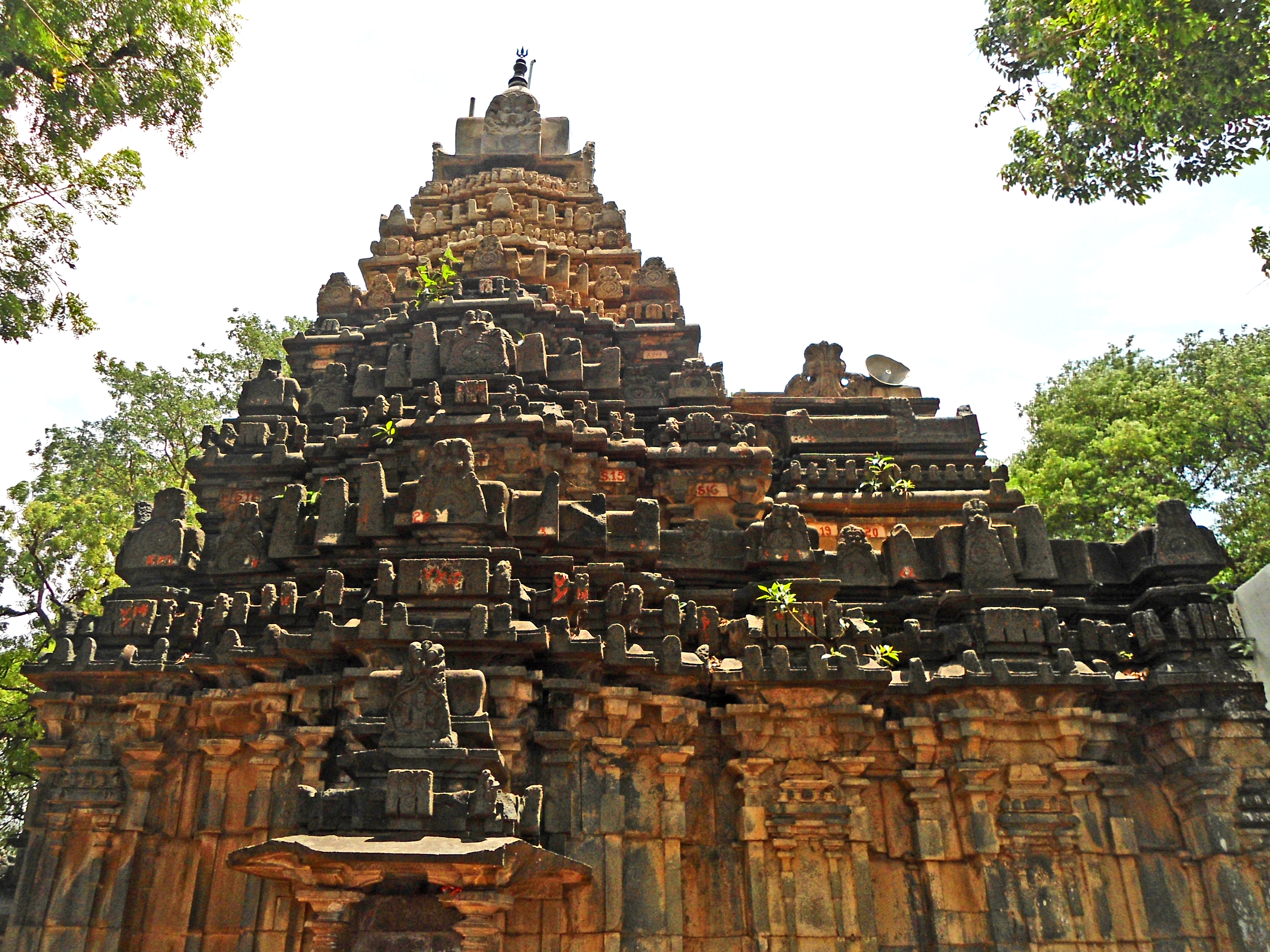 Sri Pacchala Someswara Temple at Panagal, Nalgonda District, Andhra Pradesh